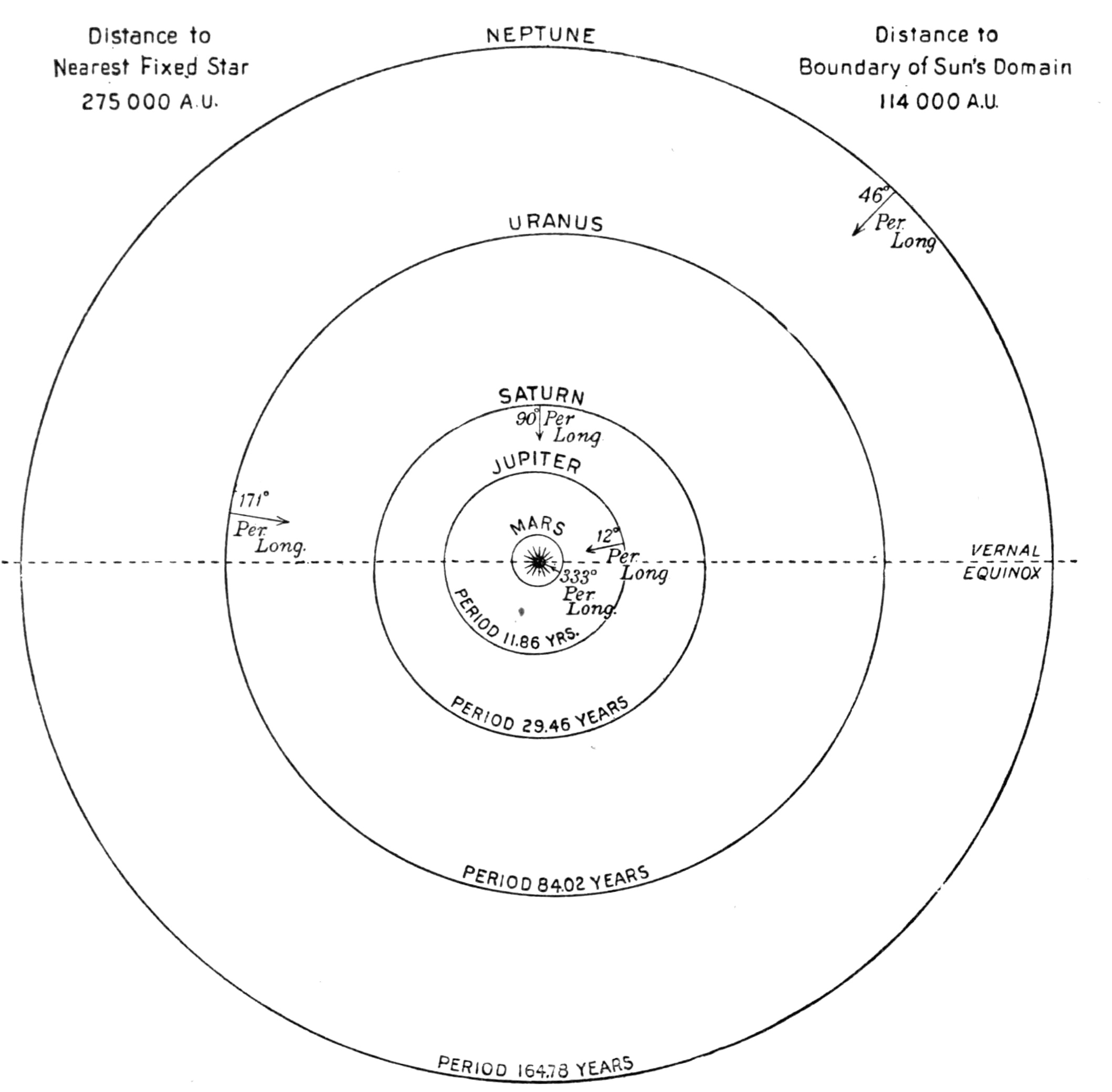 The Solar System - Lowell - Fig. 02